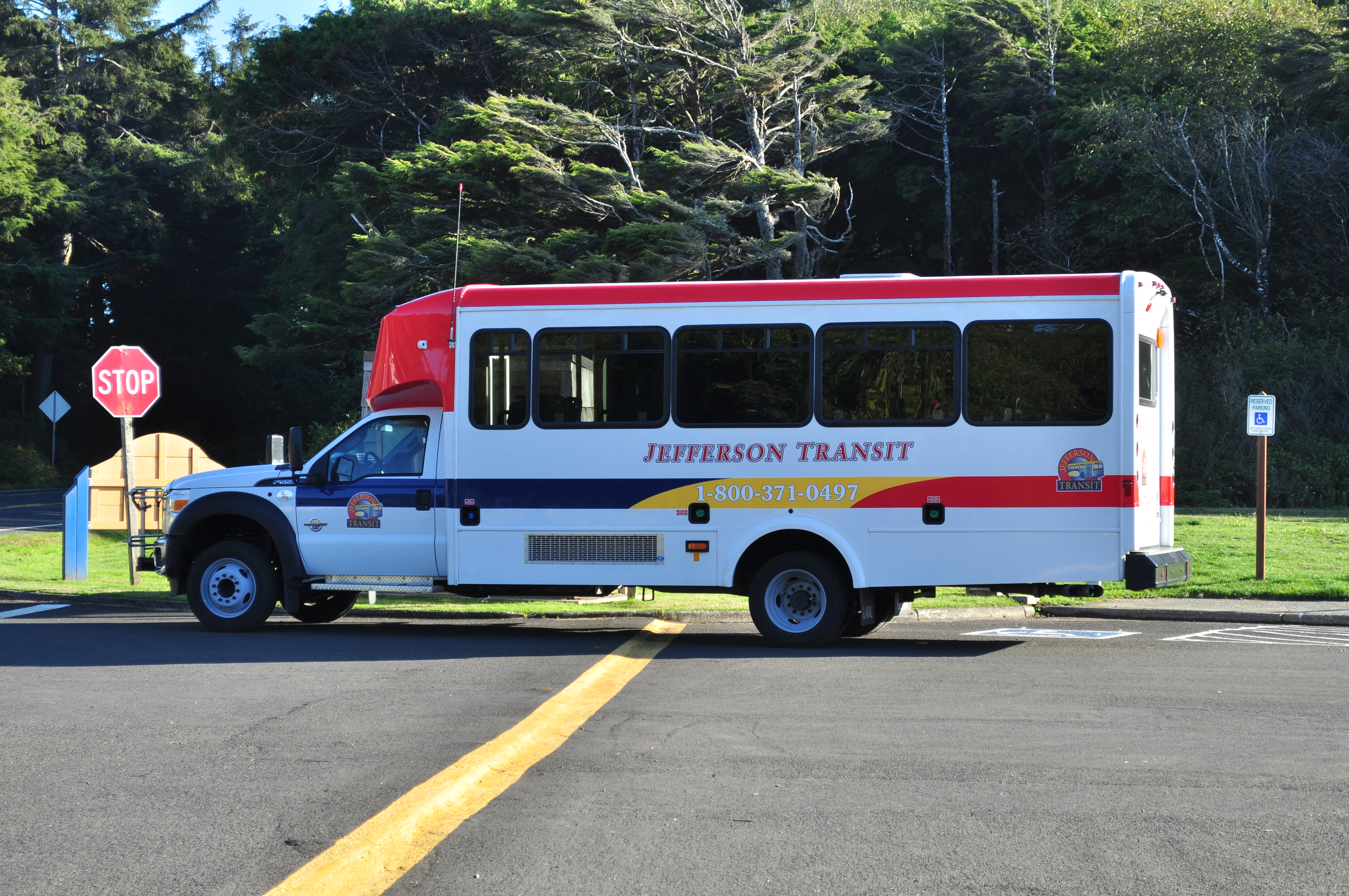 Jefferson Transit bus waiting outside Kalaloch Lodge (not visible), Washington, U.S. in Olympic National Park.